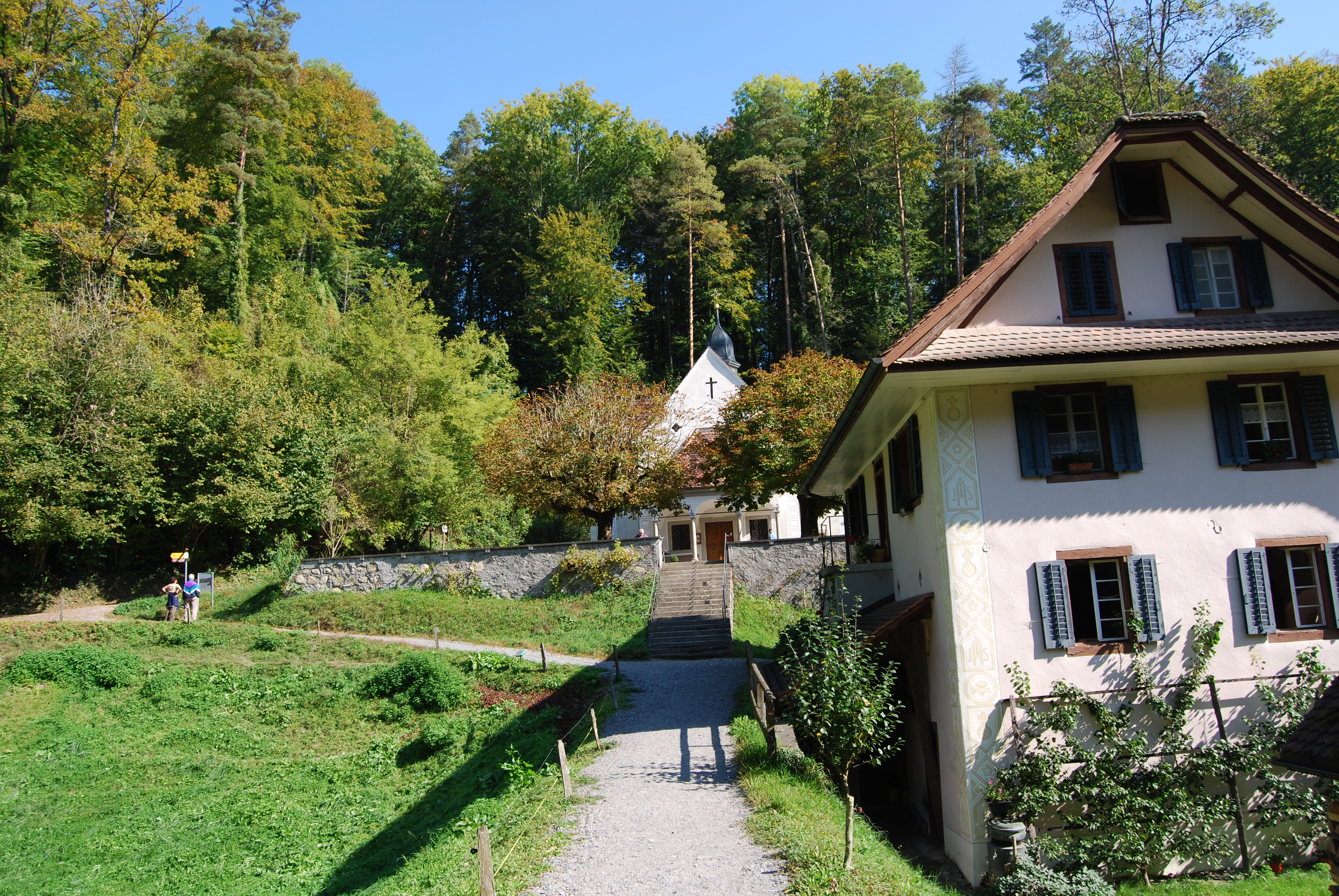 Jonental pilgrimage chapel, canton of Aargau, SwitzerlandEsperanto: Pilgrima kapelo Jonental, Kantono Argovio, Svislando